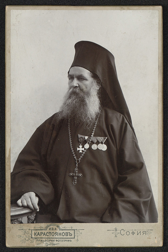 Theophylact Tilev